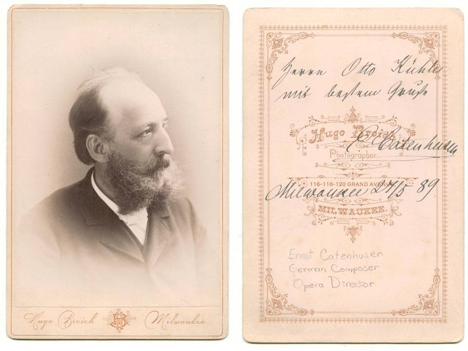 Portrait photography of Ernst Catenhusen by Hugo Broich, Milwaukee